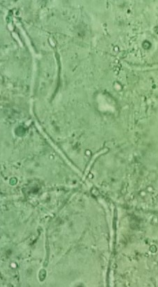 Vaginal wet mount (using a potassium hydroxide preparation and light microscopy) in candidal vulvovaginitis, showing slings of pseudohyphae of Candida albicans. A chlamydospore is visible at left.